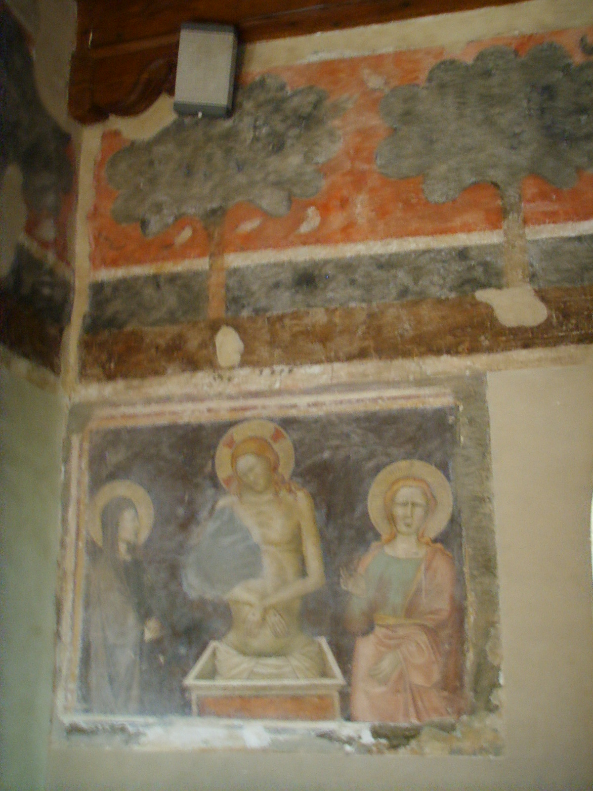 San Salvi convent fresco, outside view, in Florence, Italy